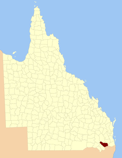 Location of the county in Queensland, one of the Cadastral divisions of Queensland